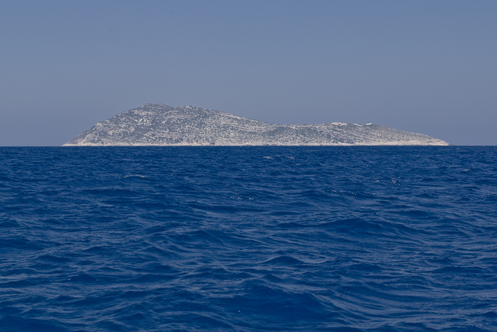 Stroggyli Megisti